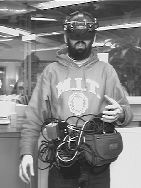 Self-portrait taken 1994 December 13th, Steve Mann with Wearable Wireless Webcam, live webcasting from wearable camera system with virtual reality display including simultaneous realtime wireless broadcast and reception of everyday life to and from the World Wide Web. This blurred the boundary between cyberspace and the real world, by creating a computer-mediated reality, allowing others on the WWW to modify my visual perception of reality as a form of social networking among what would soon become a large community of CyborGLOGGERs.